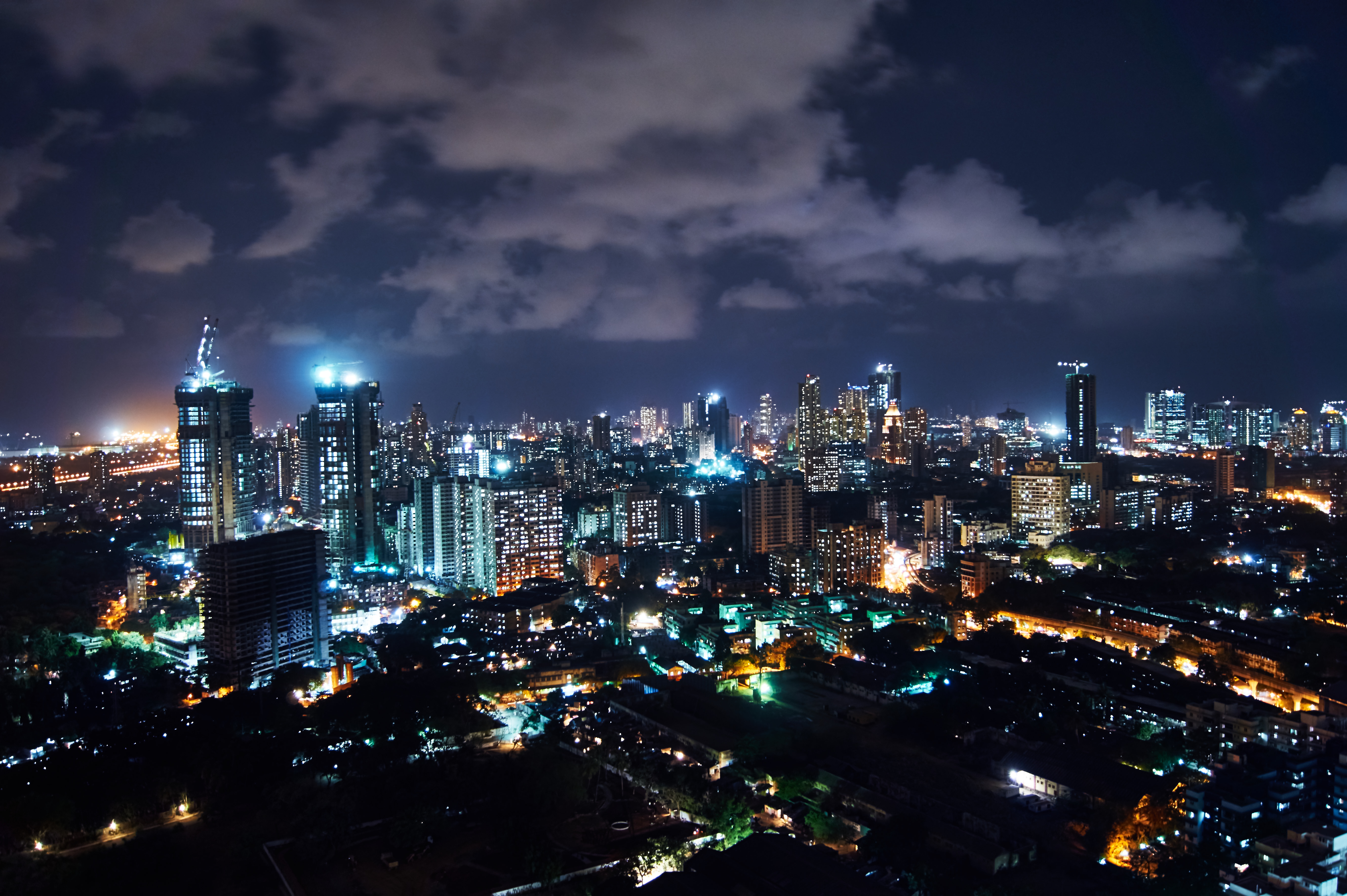 Took this Shot in the South of Mumbai, from the vantage point of the 34th floor